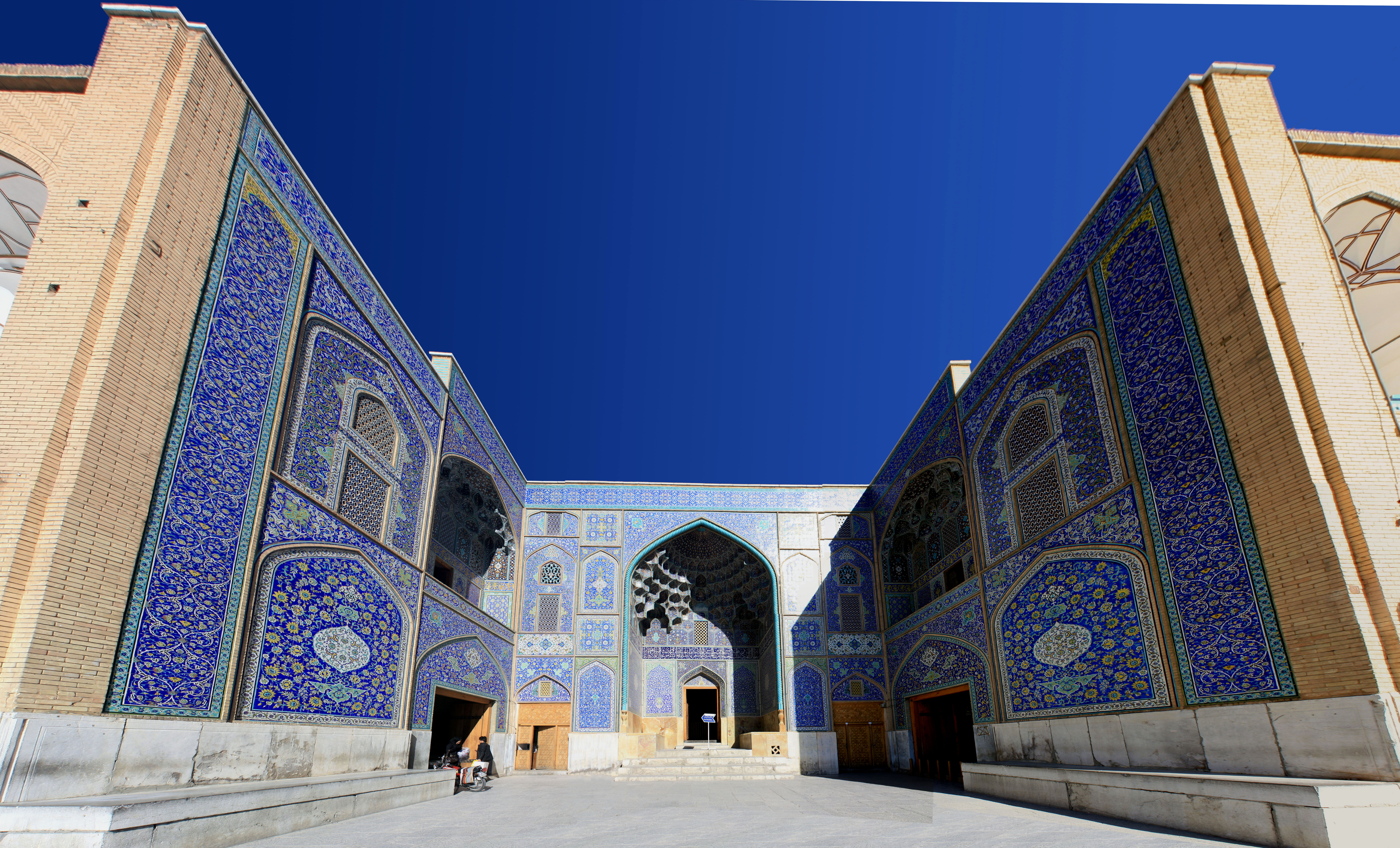 Sheikh Lotf Allah Mosque 3D Panorama